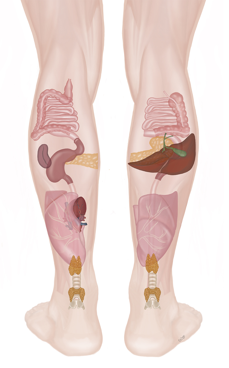 Illustration of legs where all the body’s organs are placed onto the legs. This illustrates how the organs are projected onto the leg in the norwegian treatment form neuroreflexology.